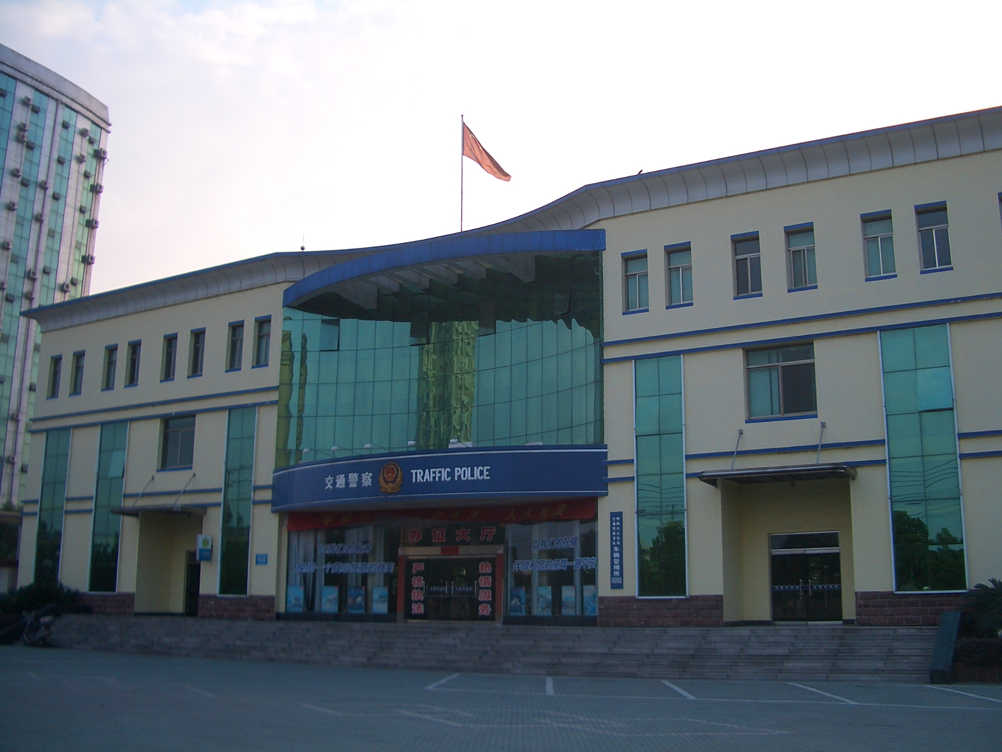 The traffic police office in central Ezhou.